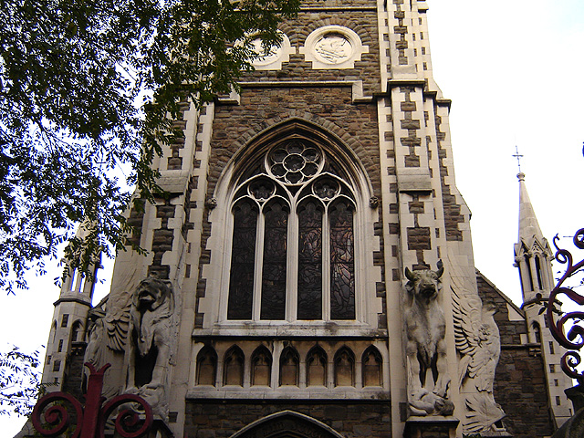 West window of the Georgian Orthodox Cathedral of the Nativity of our Lord, Upper Clapton, Hackney, London N16. Built in 1895 as the Church of the Ark of the Covenant for the Agapemonite sect, later used by the Ancient Catholic Church as the Church of the Good Shepherd, now a cathedral church for the Georgian Orthodox diaspora in London.